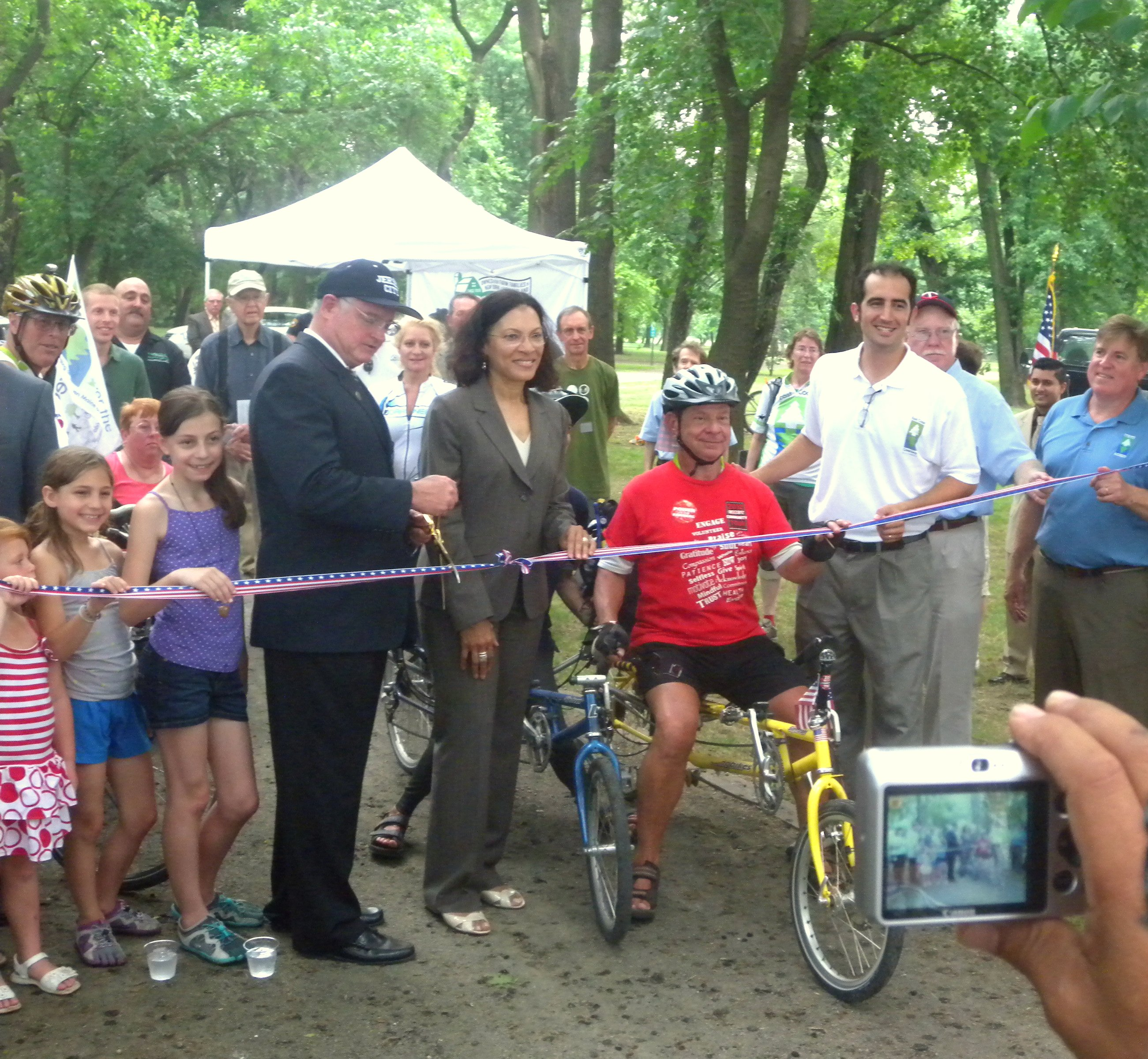 Looking east as Jerramiah Healy, Mayor of Jersey City, cuts ribbon for bikeway to Newark on a hazy morning. Myron Skott, and his wife Cathy whose bike can be seen, on their way from Florida to Maine, look on, as do officials, children, and other people.